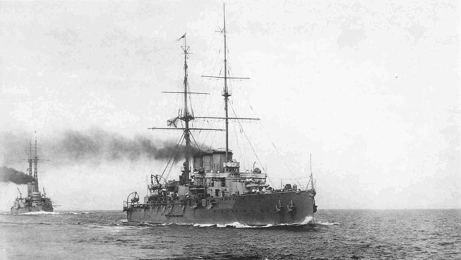 Imperial Russian armored cruiser Ryurik.